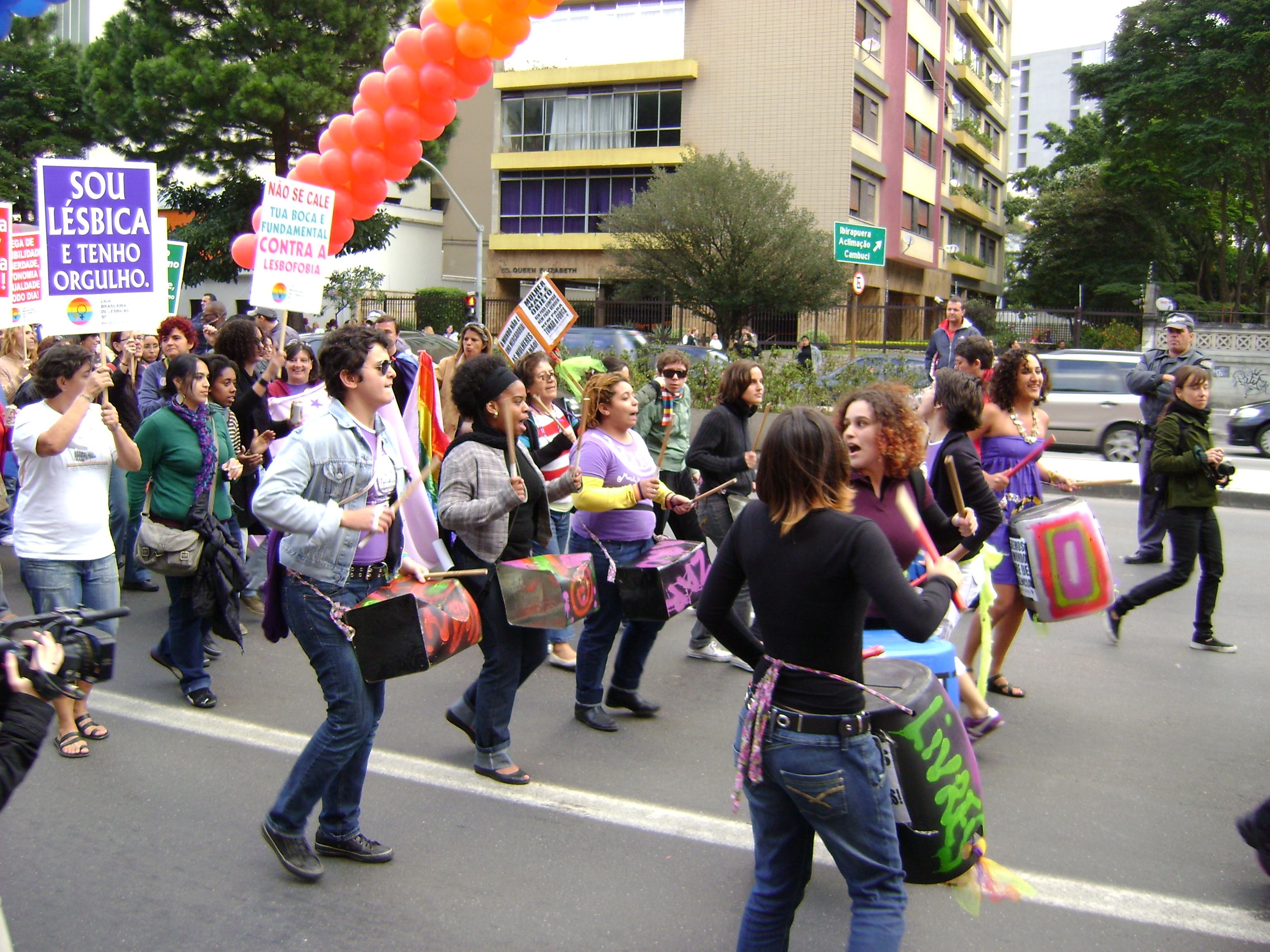 2009 Lesbian Walk, São Paulo, Brazil. Organized by Liga Brasileira de Lésbicas. March held the day before Gay Pride parade.